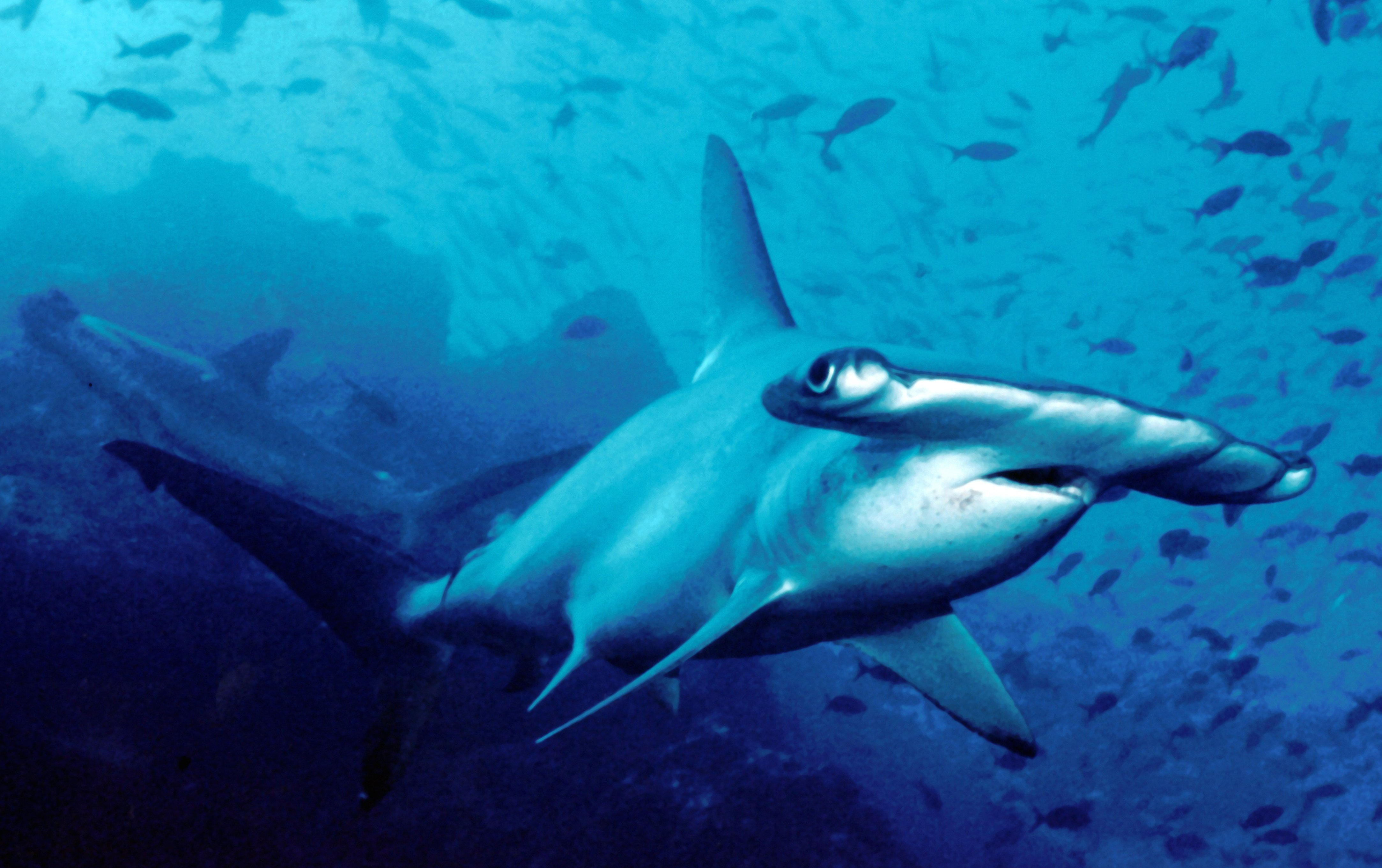 crop of file in file name